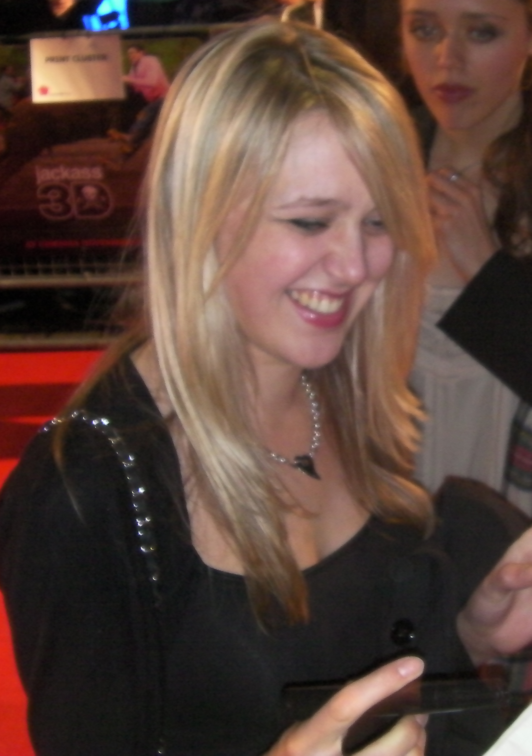 Emily Head at Jackass 3D London Premiere 2nd November 2010.